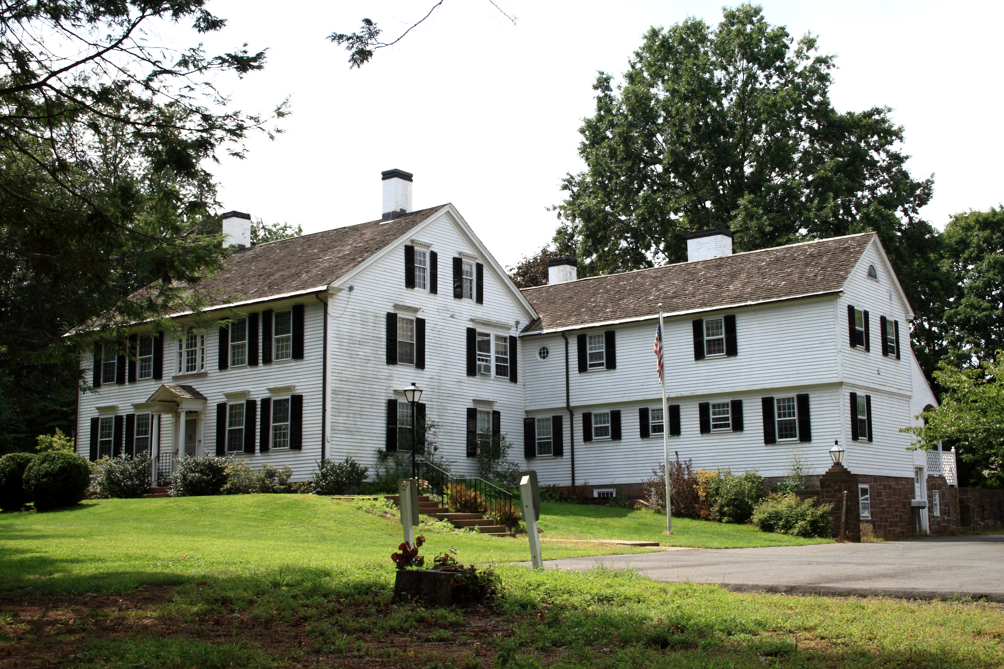 The Kellogg-Eddy House (also known as the Gen. Martin Kellogg House), 679 Willard Ave., a Registered Historic Place in Newington, Connecticut